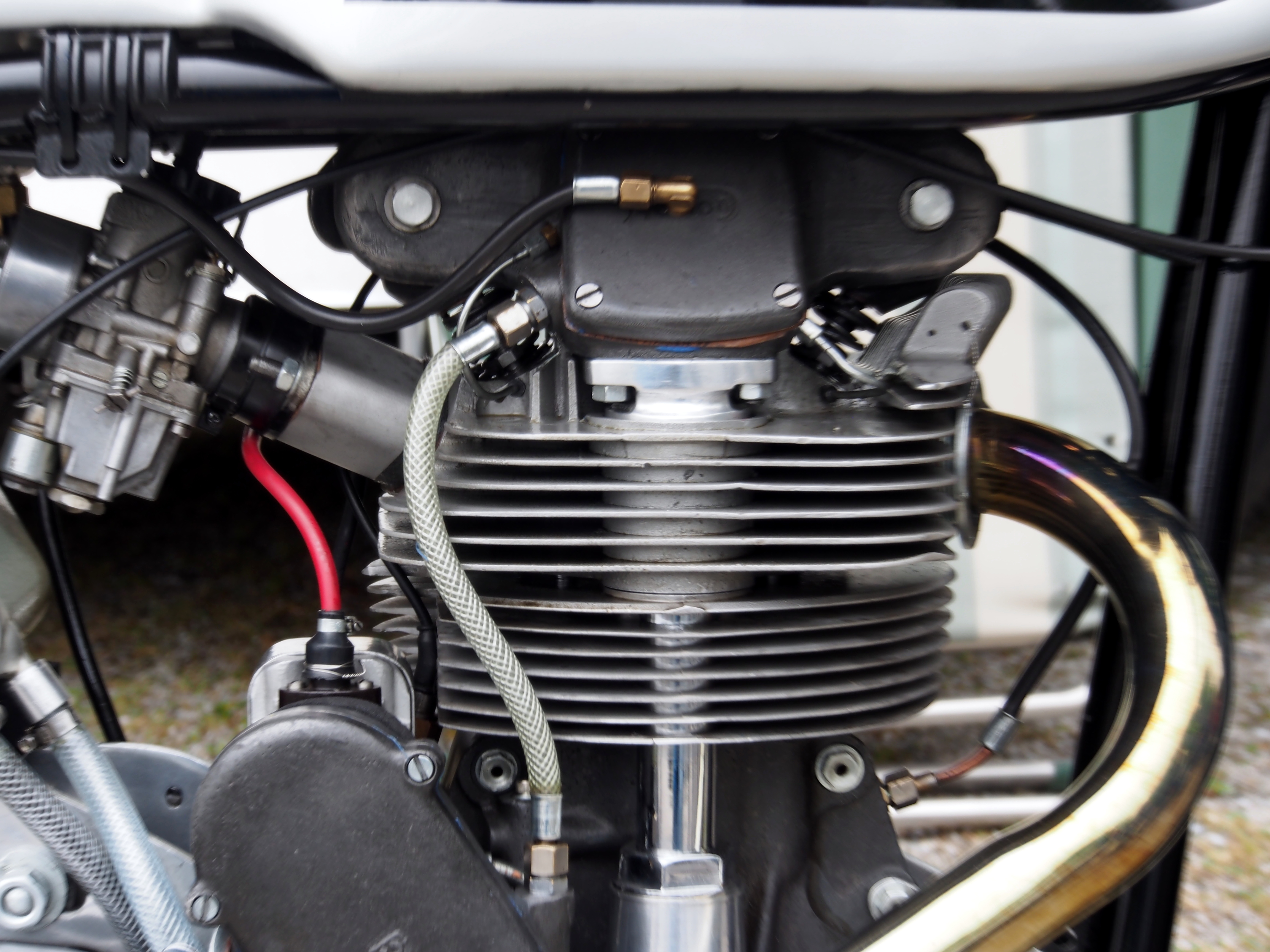 Photographed at Rockanje, The Netherlands.